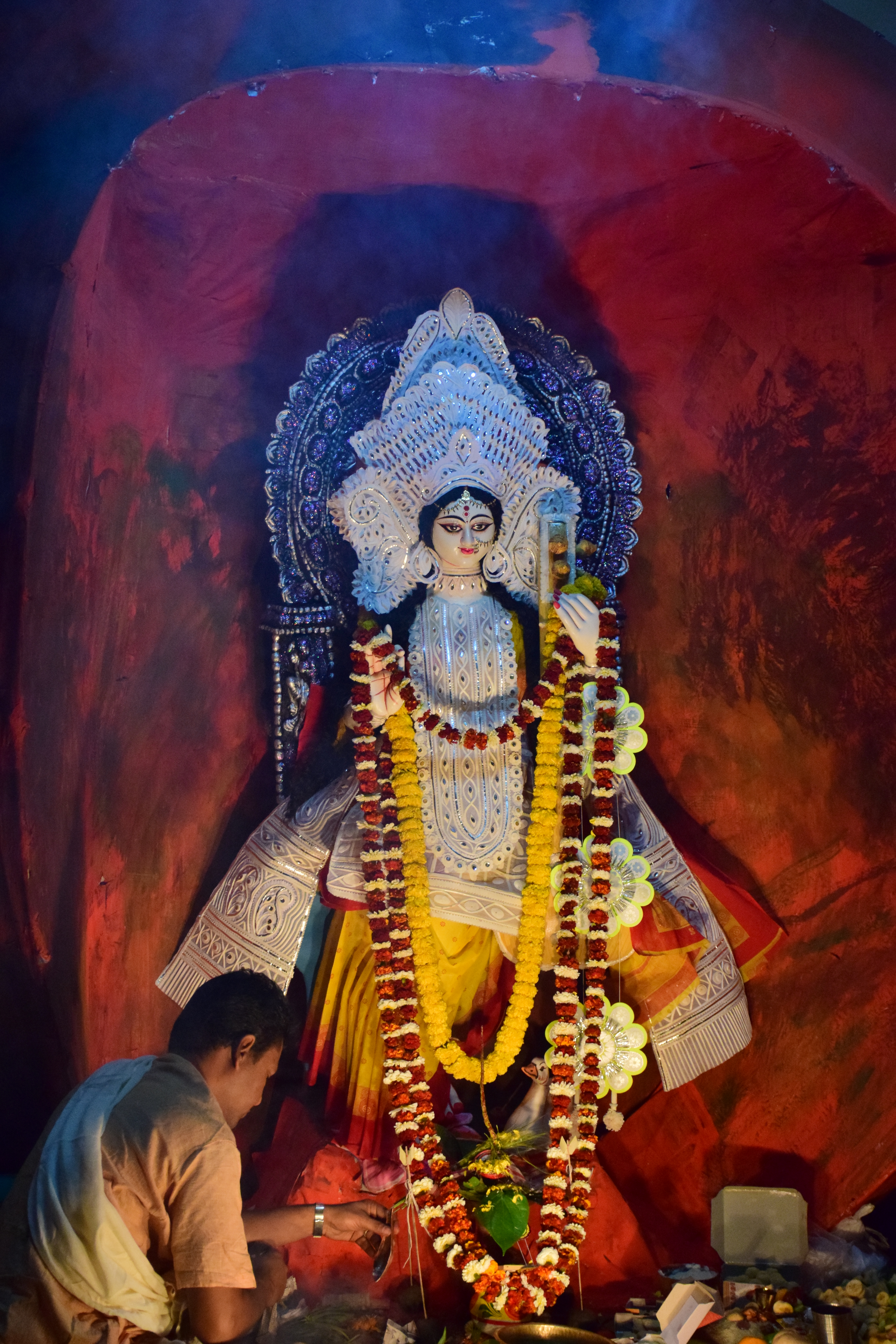 saraswati idol in Hindu School, Kolkata,India